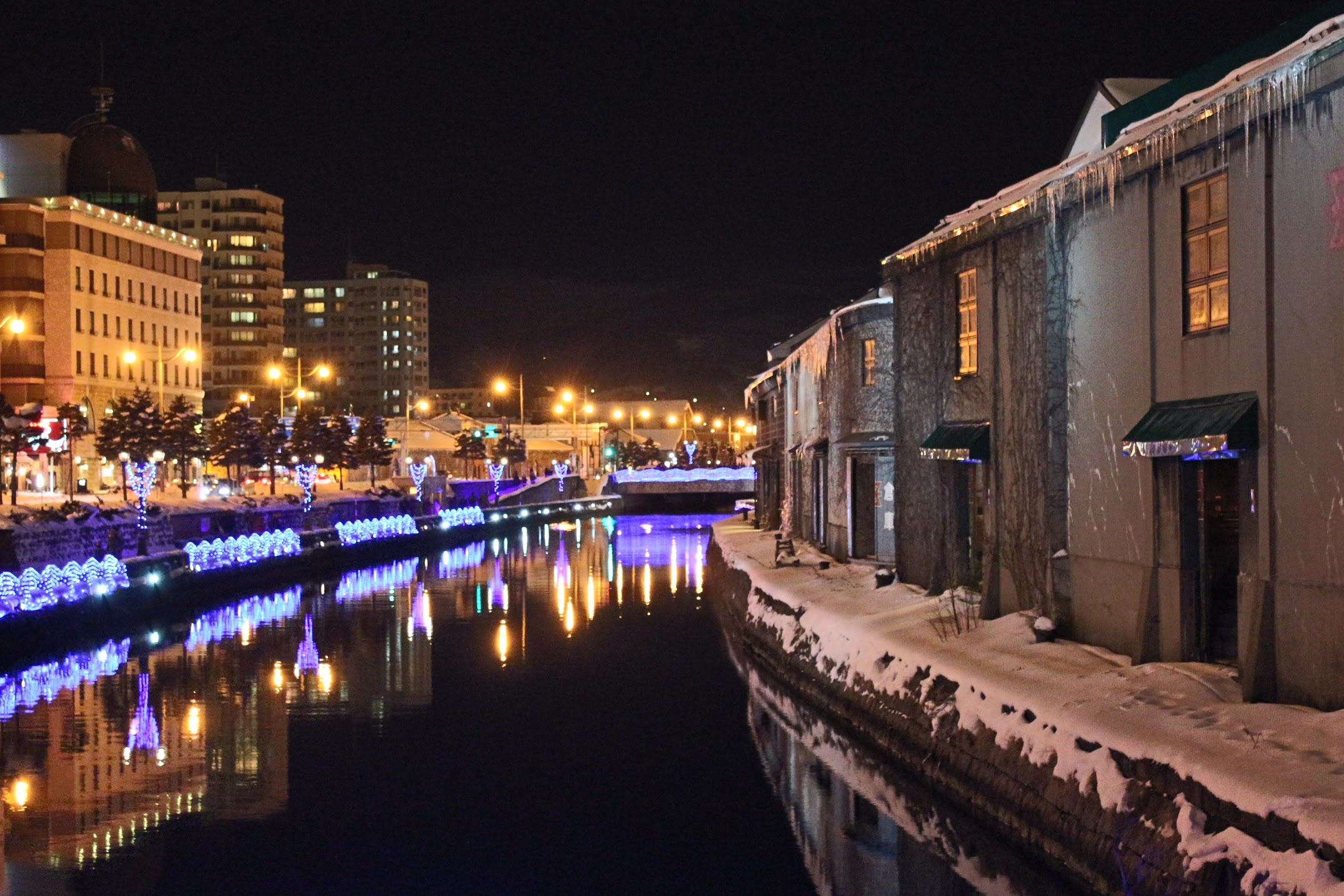 A view of Otaru Canal at night